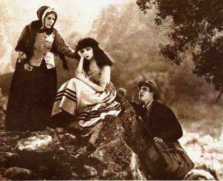 Still from the American comedy film Come on Over (1922) with Florence Drew, Colleen Moore, and Ralph Graves, page 42 of the April 1922 Screenland.